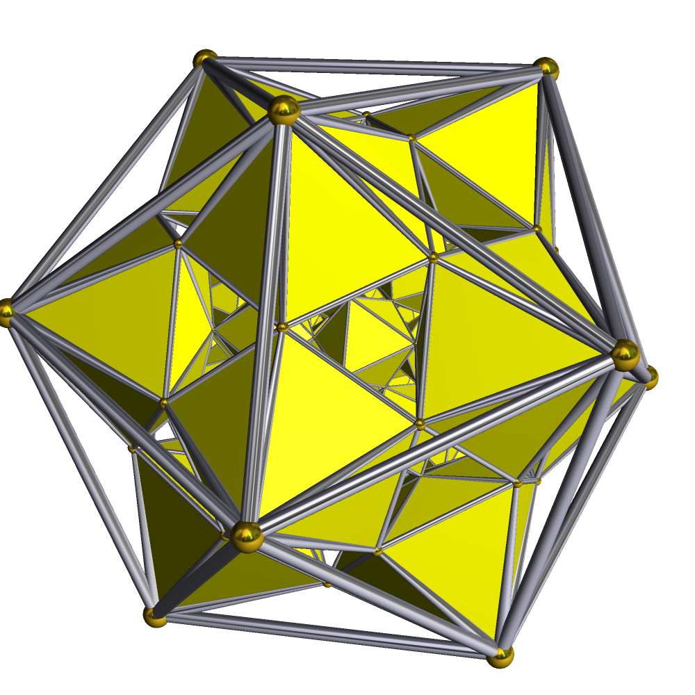 Rectified_600-cell